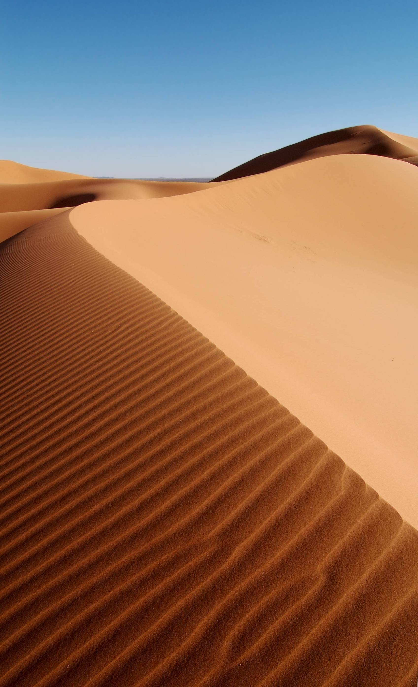 Erg Chebbi, Morocco, Africa.